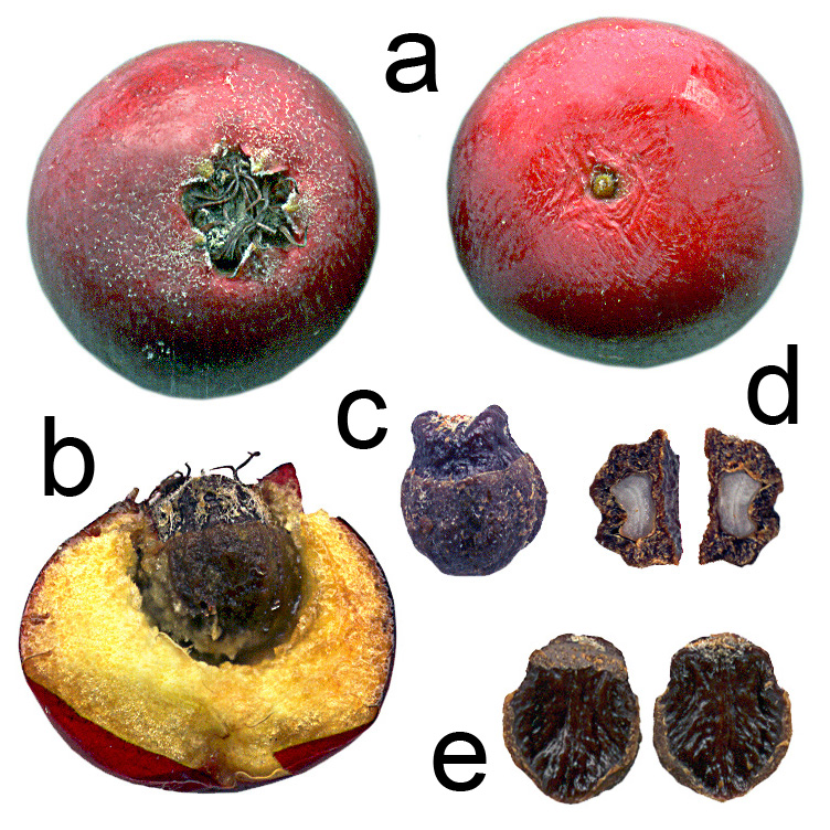 Pseudocarp and pyrene of Cotoneaster multiflorus